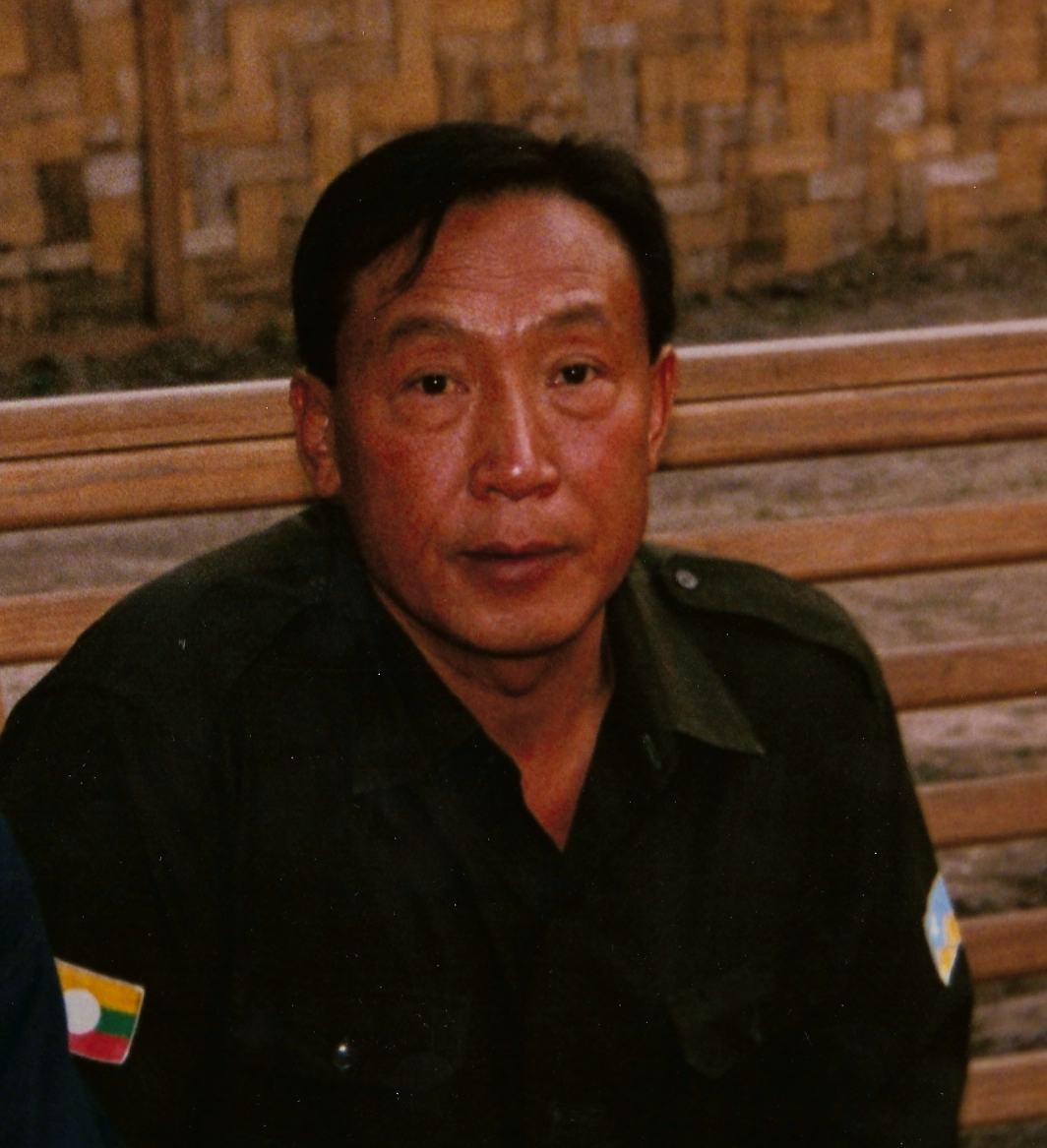 Heroin warlord Khun Sa meeting with Australian journalist Stephen Rice, pictured in April 1988 at Khun Sa's jungle headquarters inside Burma, in South East Asia's Golden Triangle.